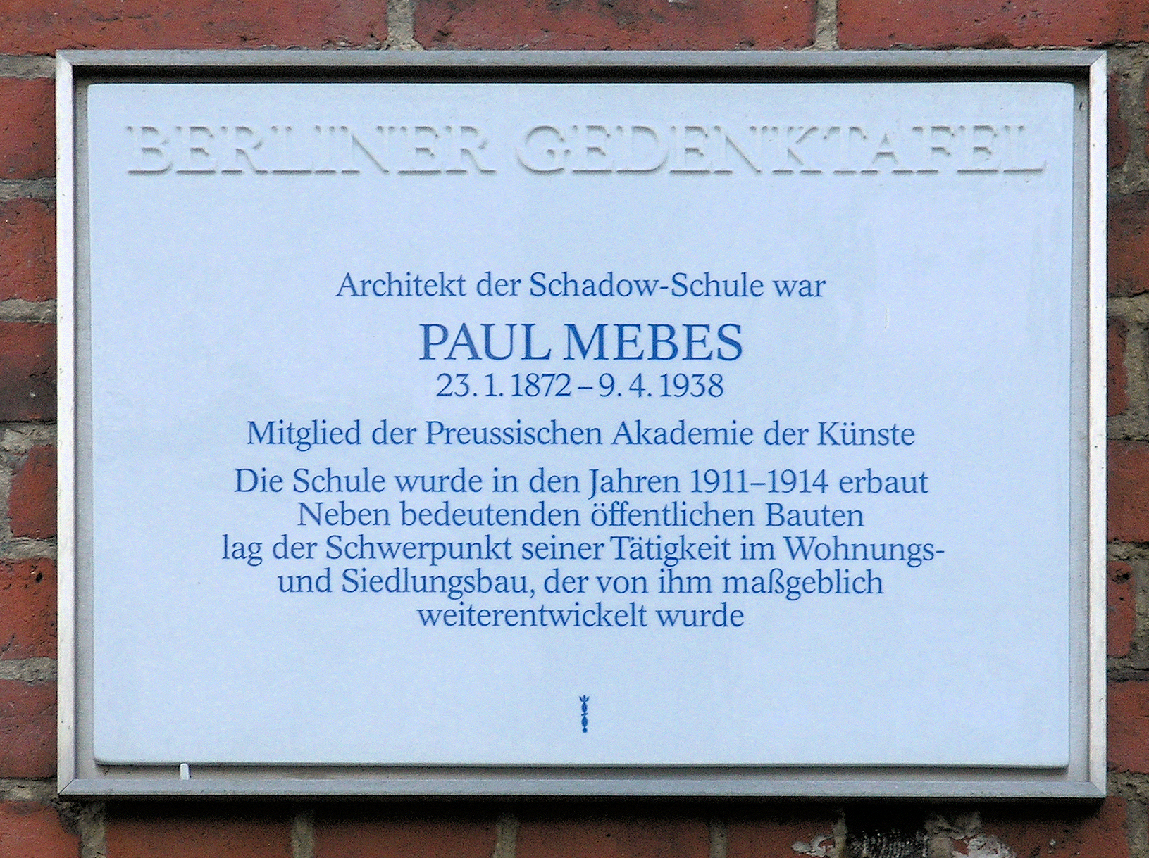 Berlin memorial plaque, Paul Mebes, Beuckestraße 27-29, Berlin-Zehlendorf, Germany Koordinate:52°25′54″N 13°15′18″E / 52.43167°N 13.255°E